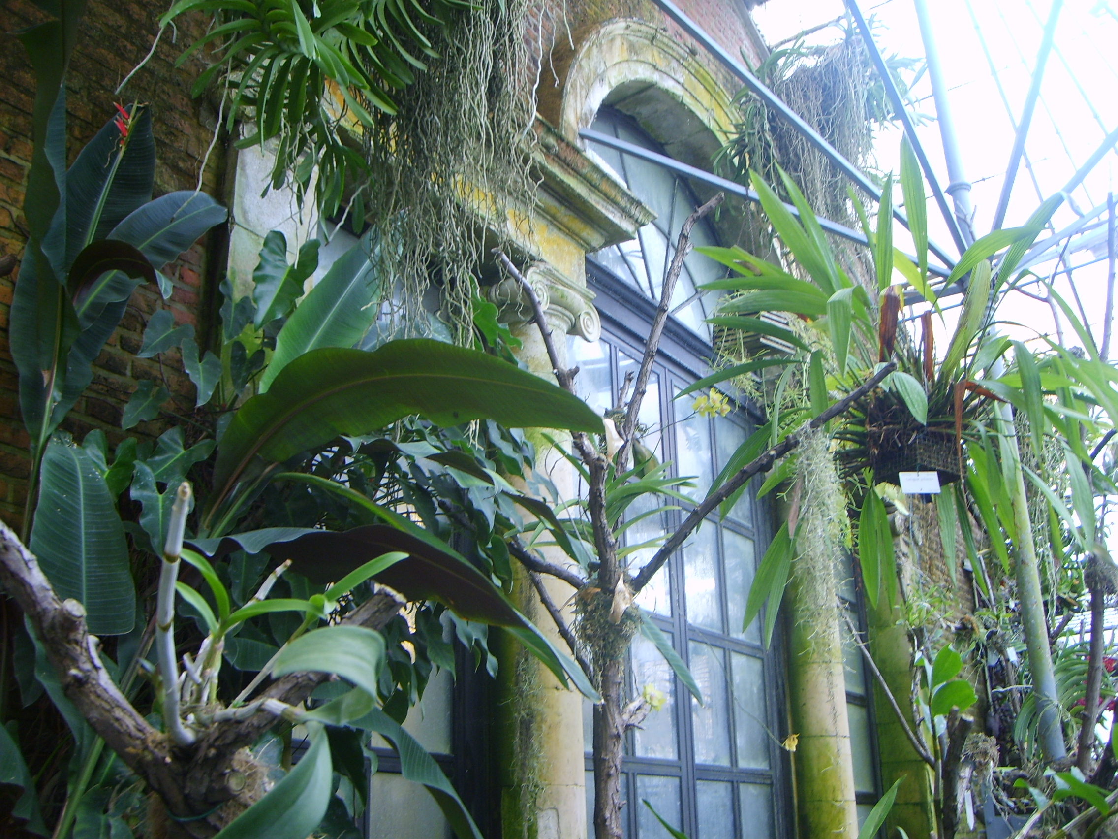 The greenhouses in Leuven's botanical garden.